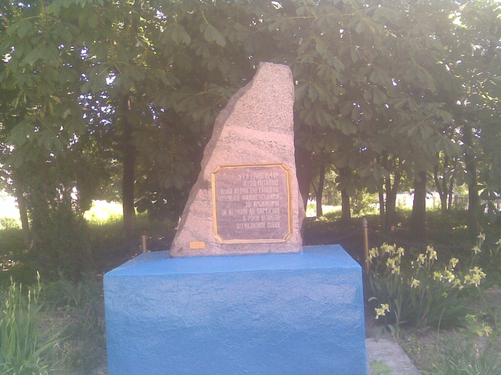 Камінь пам’яті загиблим від фашистів.